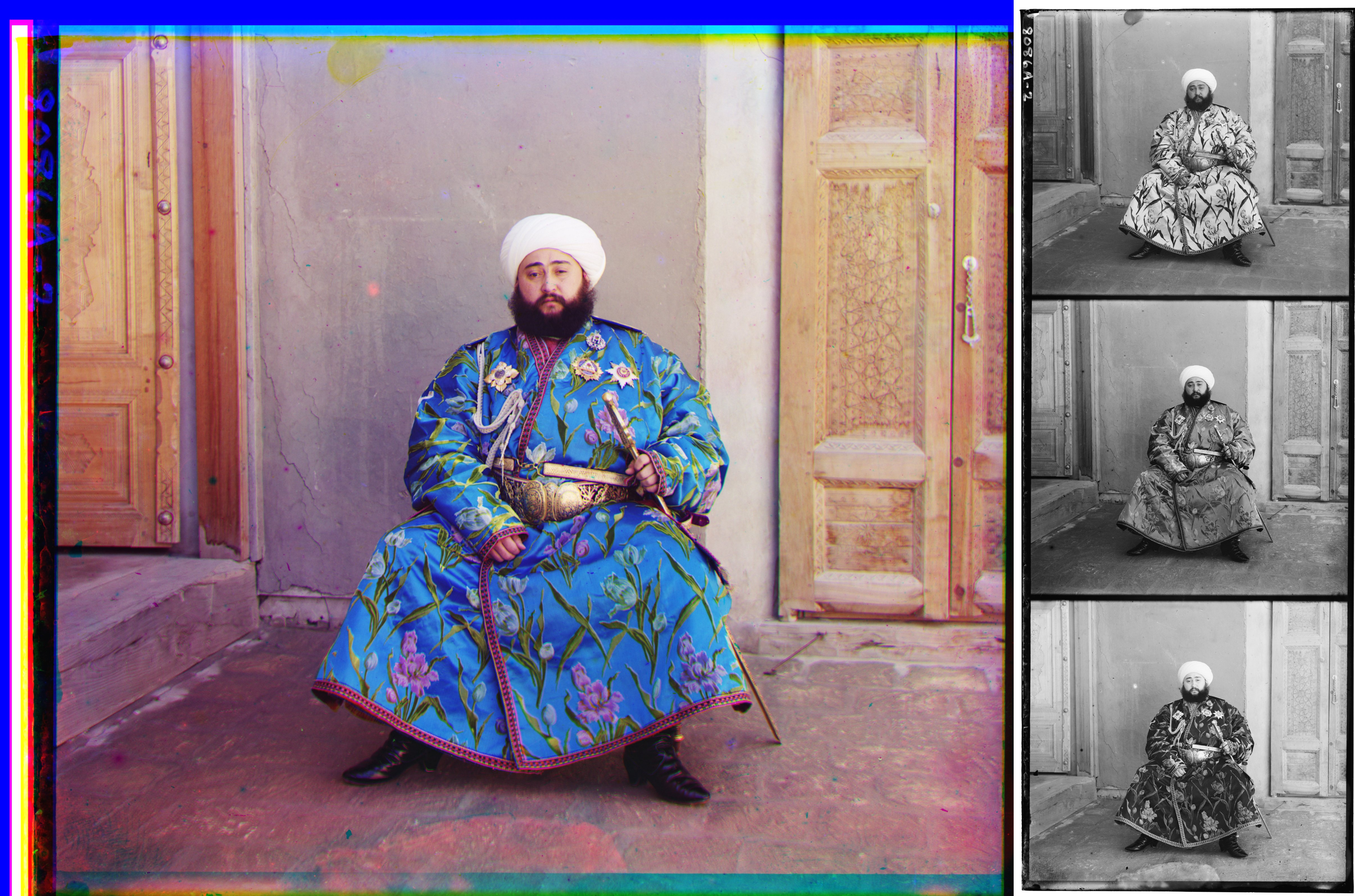 A picture of Mohammed Alim Khan (1880-1944), Emir of Bukhara, taken in 1911. This is an early color photograph taken by Sergei Mikhailovich Prokudin-Gorskii as part of his work to document the Russian Empire. Three black-and-white photographs were taken through red, green and blue filters. The three resulting images were projected through similar filters. Combined on the projection screen, they created a full-color image. Prokudin-Gorskii also made color prints from some of his images and published a number of them as inserts in Fotograf-Liubitel, a photographic magazine he edited from 1906 to 1909. His 1908 color portrait of Leo Tolstoy was also published as a postcard. In recent years, the Library of Congress has made high-resolution scans of their collection of Prokudin-Gorskii's original glass plate negatives and contracted with outside agencies to produce high-quality color-corrected images from the black-and-white scans. This example is a simple color composite of the three original images shown at right and has not been color-corrected, retouched, or artificially enhanced in any way.